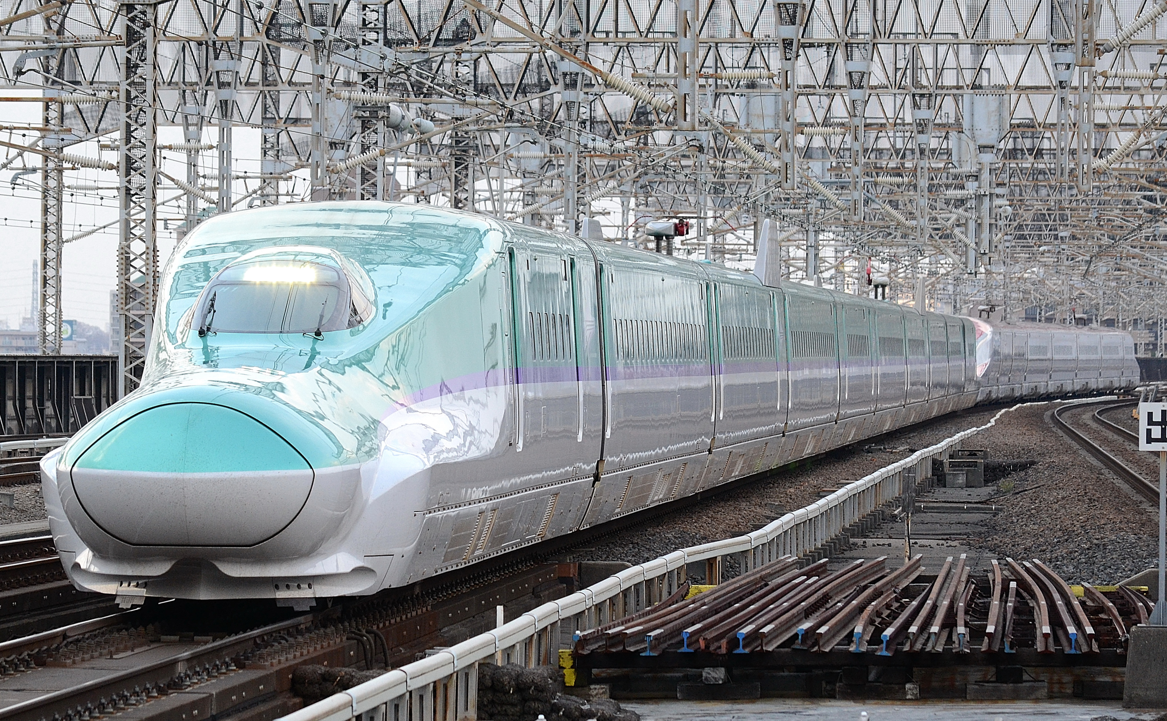 JR Hokkaido H5 series set H1 approaching Omiya Station on the Hayabusa 22 service, with a Komachi E6 series set coupled at the rear